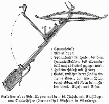 Pelletbow / Stonebow (16th century, steel bow)